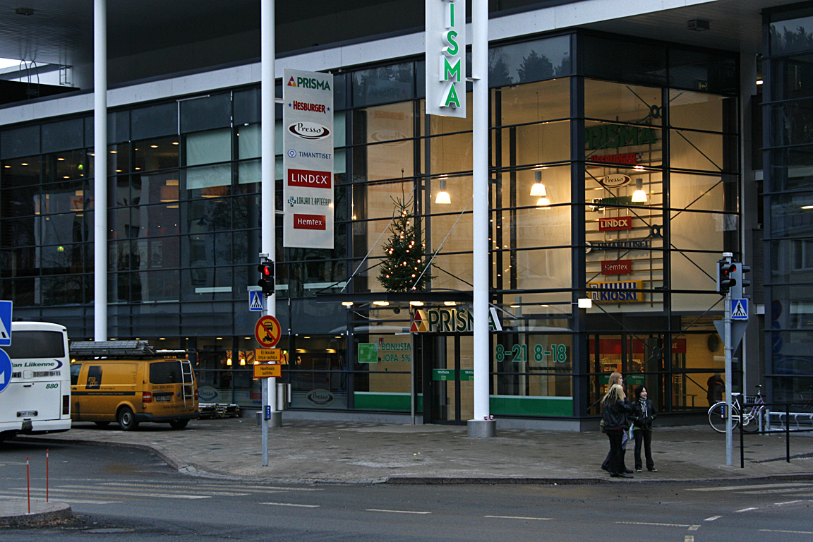 Prisma hypermarket in Lohja, Finland